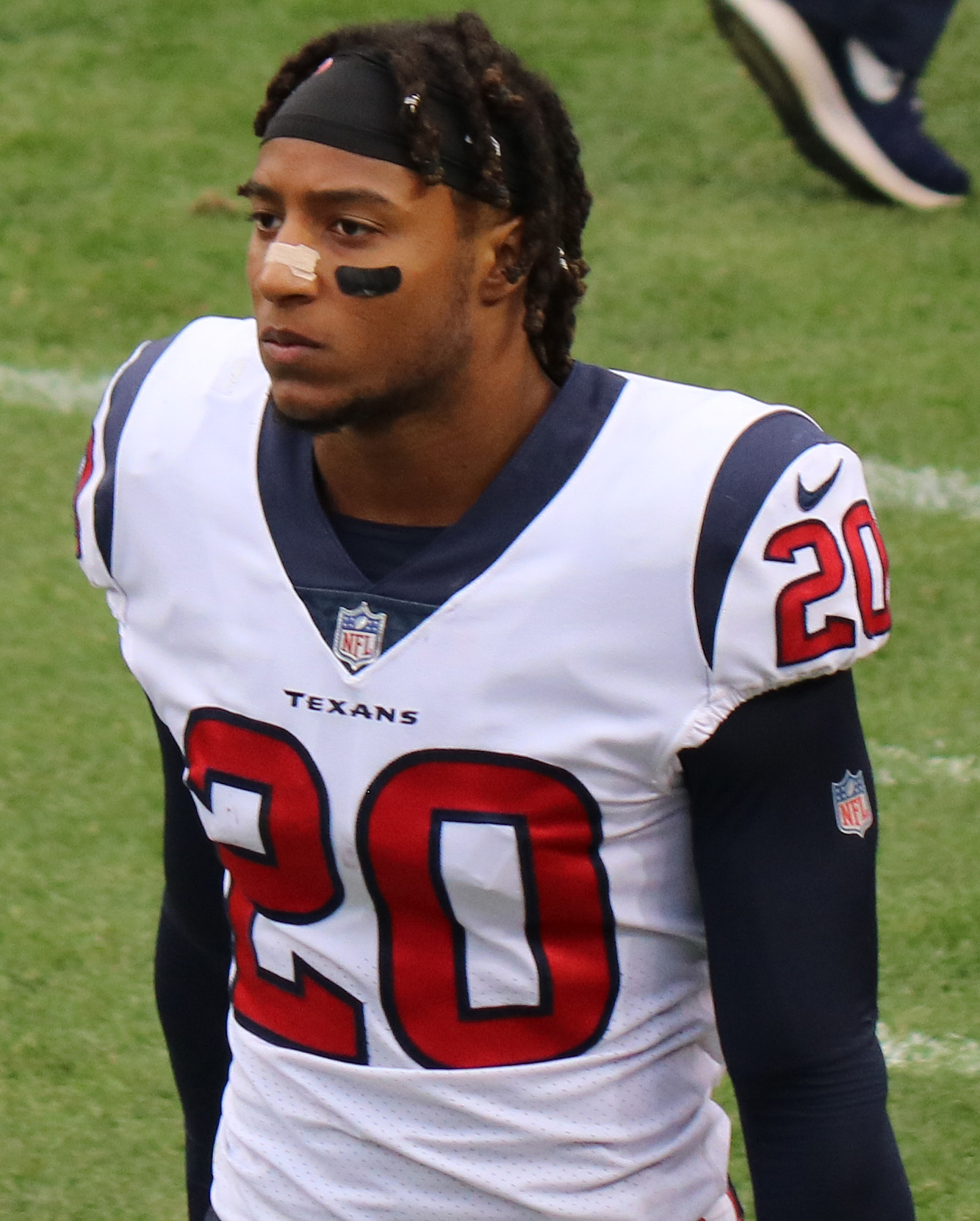 Justin Reid, a National Football League player.